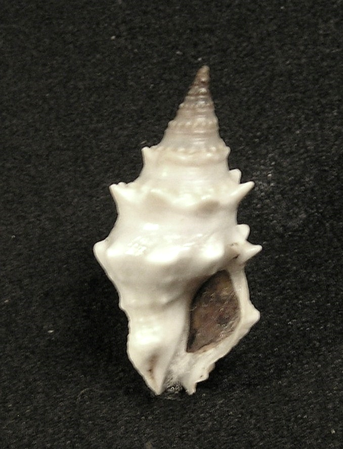 Clavatula muricata (Lamarck, 1822) ; Angola